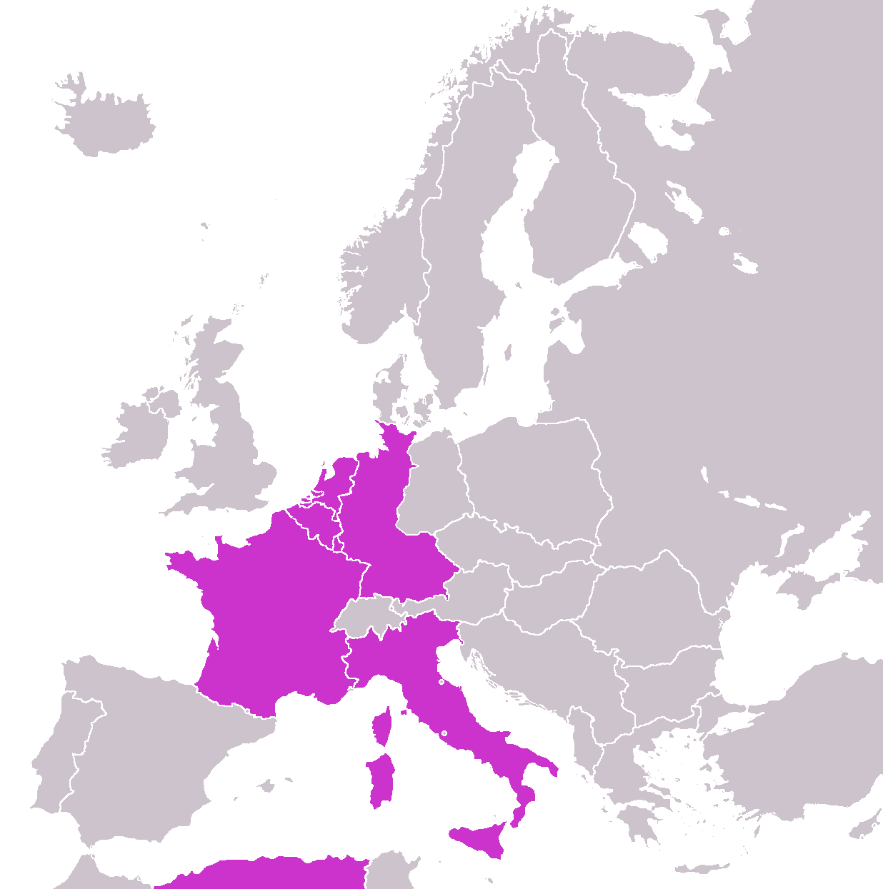 Countries that would have formed the European Defence Community, according to Pleven Plan: France, Italy, Belgium, Netherlands, Luxembourg and West Germany.